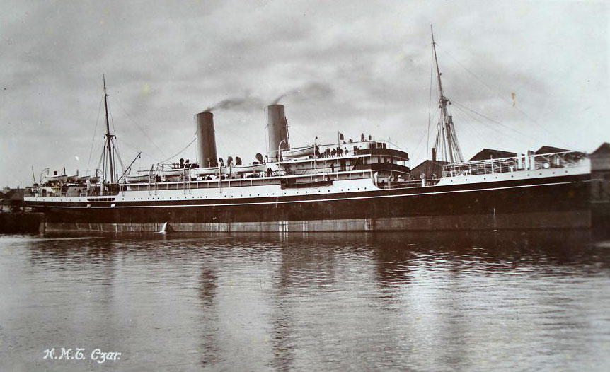 HMT Czar, a British troopship, is seen in port c. 1917–1920. The former SS Czar (or Царь in Russian), the ship was a former Russian American Line ocean liner. She was later known as SS Estonia (1921), SS Pułaski (1930), and SS Empire Penryn (1946). The ship was scrapped in 1949. Information about Czar may be found at IMO 1142324. A ship can change her name and flag state through time, but the IMO number remains the same through the hull's entire lifetime. Therefore, it's useful to identify a ship through her IMO number.